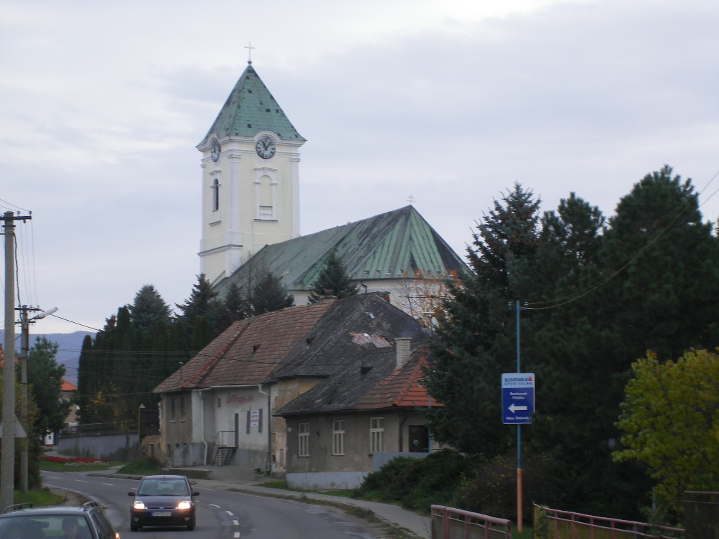 Oslany - church of Saint Stephen